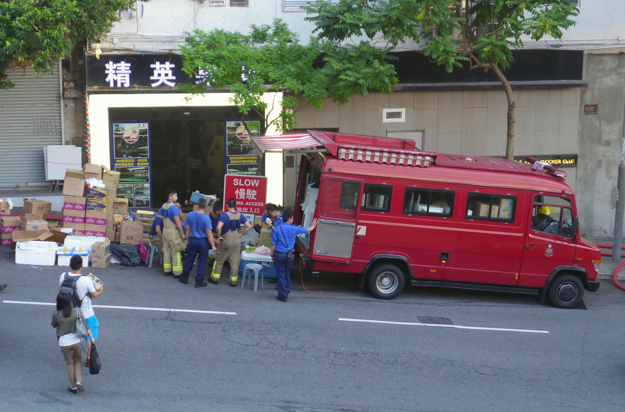 Citizen give supply to Firefighters